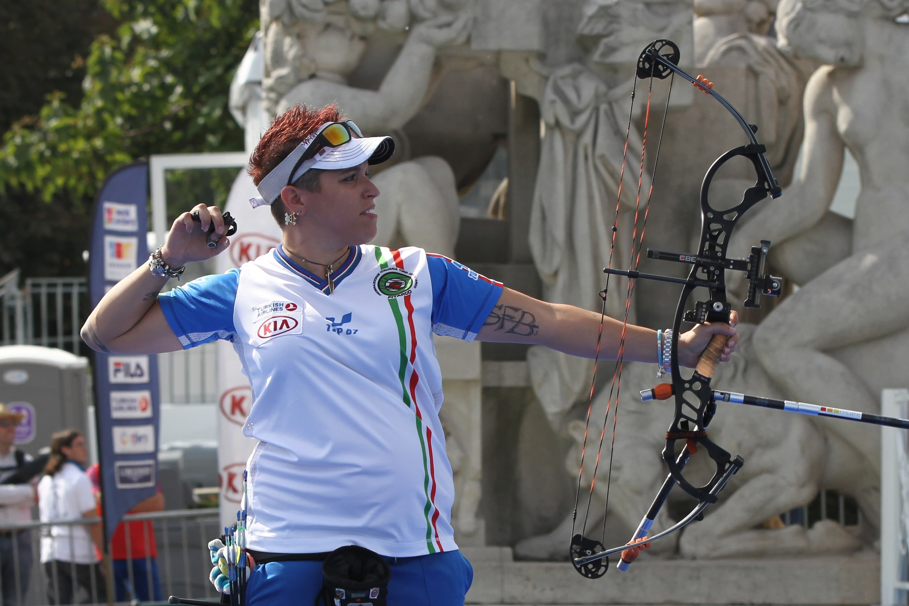 2013 FITA Archery World Cup, Paris, France. Mixed Team Compound Final. Pascale Lebecque and Pierre-Julien Deloche vs Marcella Tonioli and Sergio Pagni.